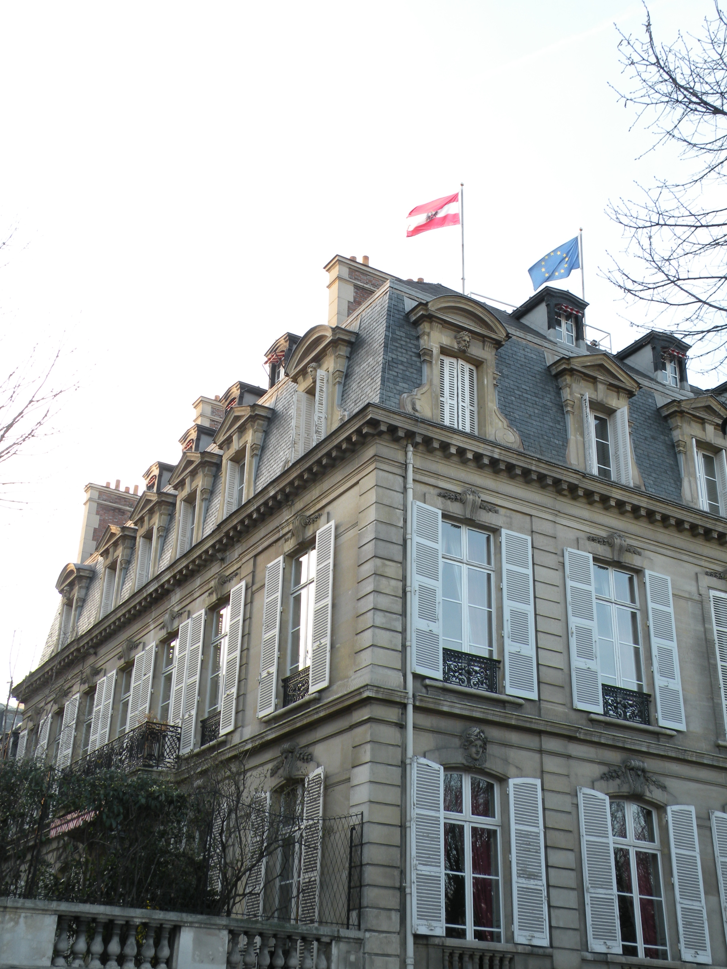 Austrian embassy in France, Paris